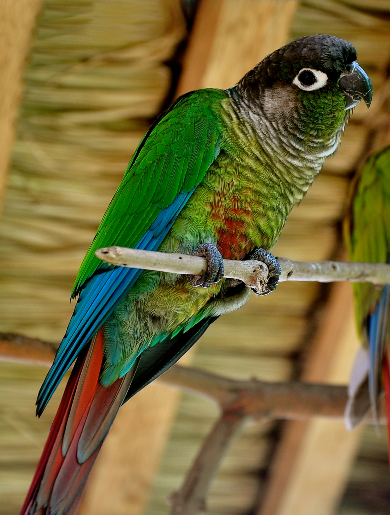 Green-cheeked Conure perching in an aviary at Kuala Lumpur Bird Park, Malaysia.